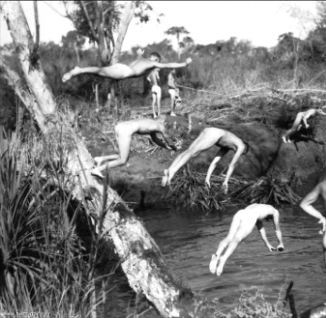 Darwin area, NT. 1943-05-10. Naked members of the RAAF dive in from a river bank to enjoy a swim in a water hole. This expurgated version cropped out two conspicuously naked figures.